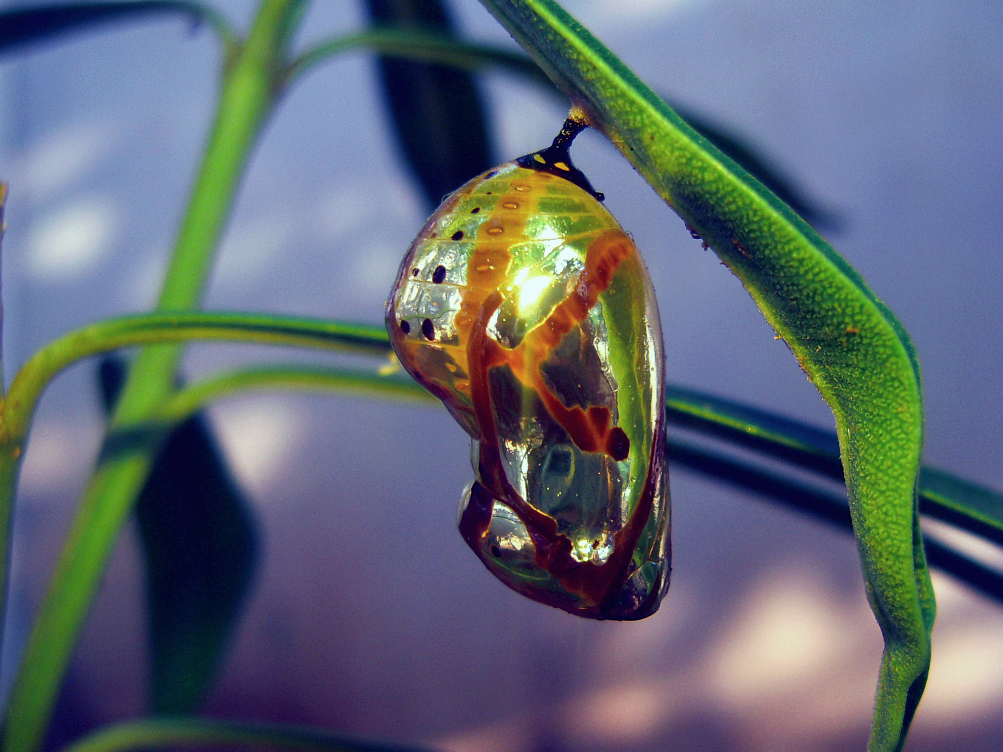 Chrysalis(Pupa) of a Common Crow Butterfly (Euploea core. It illustrates the Greek origin of the term : χρυσός (chrysós) for Gold. Taken at Tirunelveli, Tamil Nadu, India.